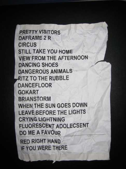 Set list from Arctic Monkeys @ the Powerstation, Auckland 15th January 2009